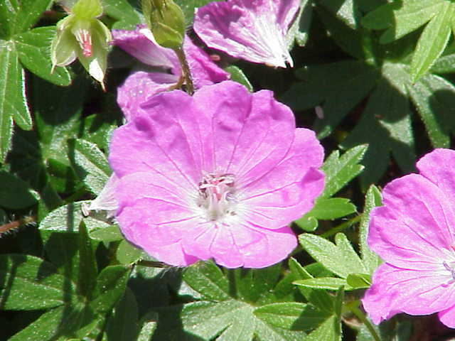 Species: Geranium sanguineum Family: Geraniaceae Image No. 2